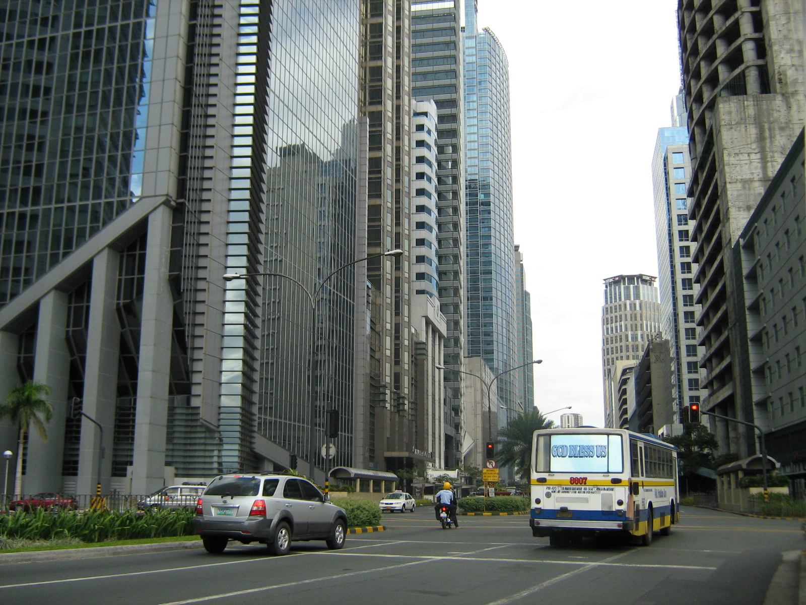 Ayala Avenue in Makati City, Metro Manila, Philippines